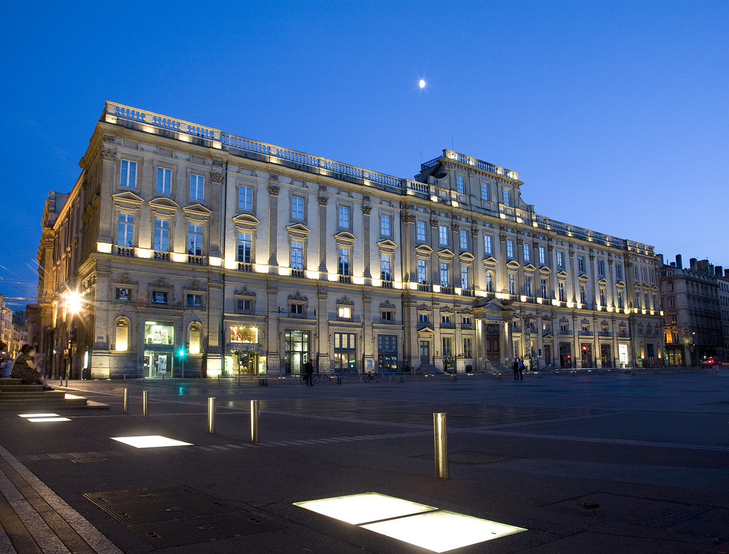 Picture in the night of the front of the museum taken from the place des Terreaux